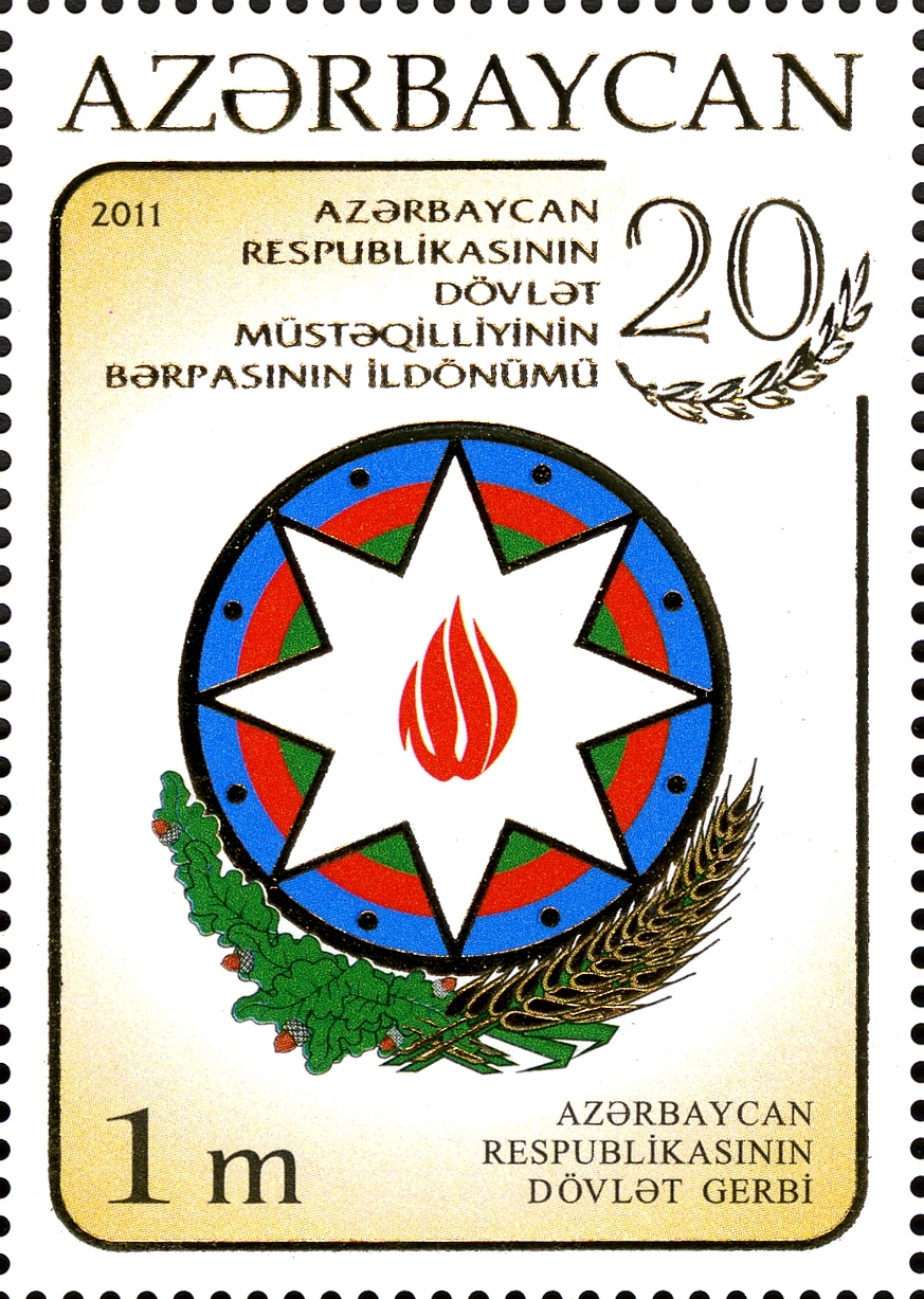 The 20th. Anniversary of the Restoration of State Independence of the Republic of Azerbaijan.